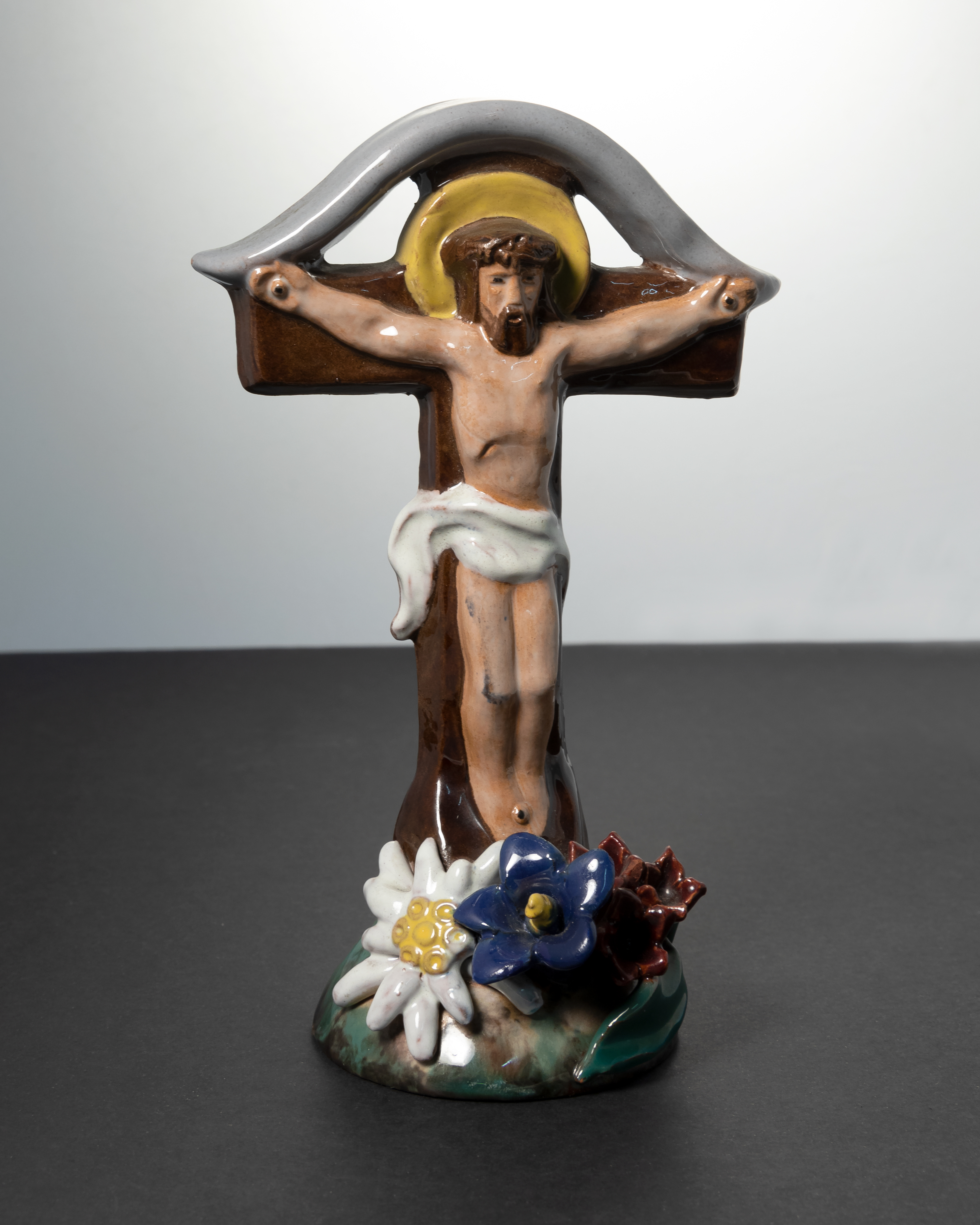 Crucifix with alpine flowers (height 18.5 cm), earthenware, made ca. 1930 by Alpenländische Kunstkeramik Liezen. Austrian Museum of Folk Life and Folk Art in Vienna, Austria.